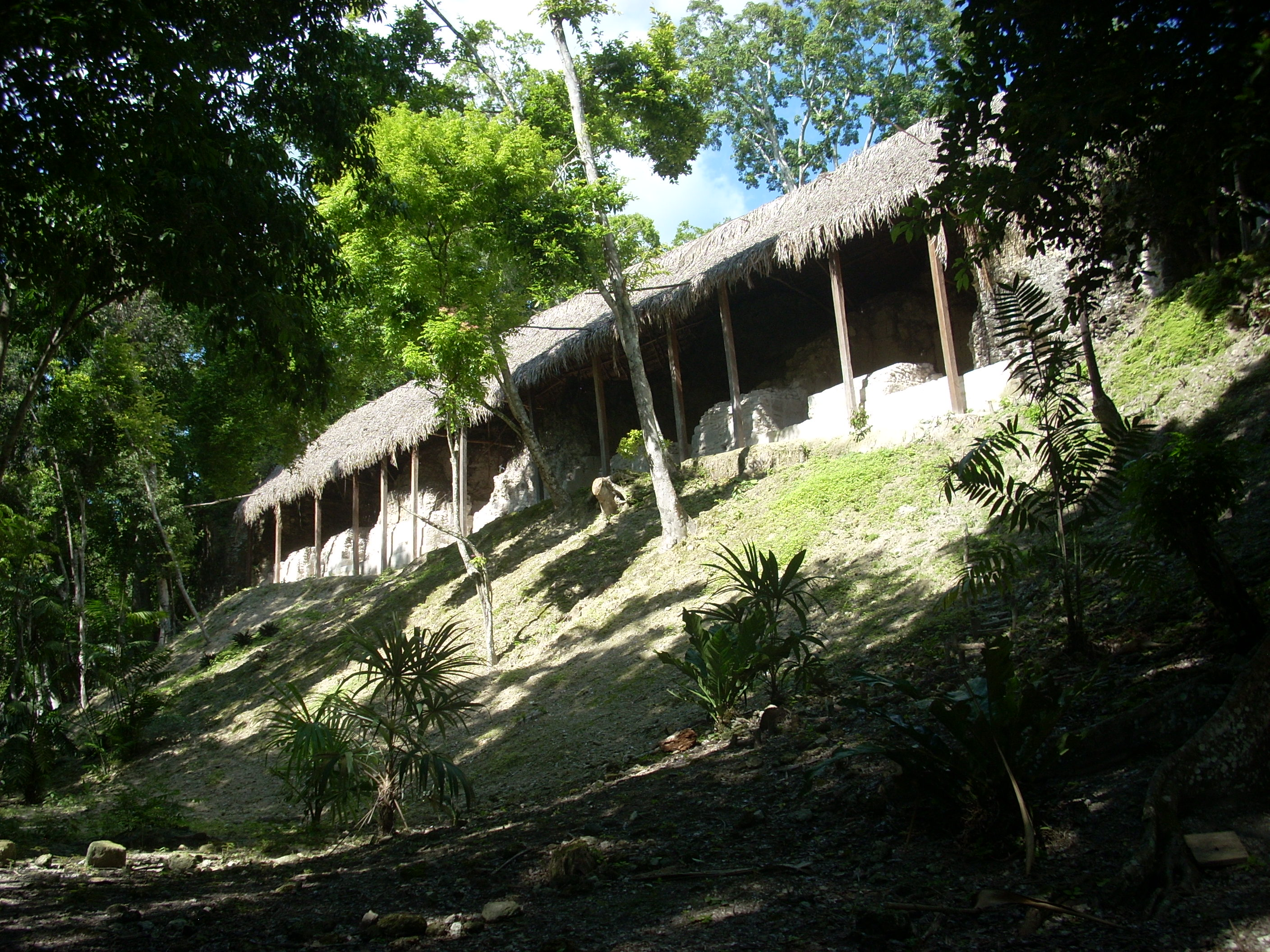 Acropolis palace at the Maya ruins of La Blanca, Peten, Guatemala.